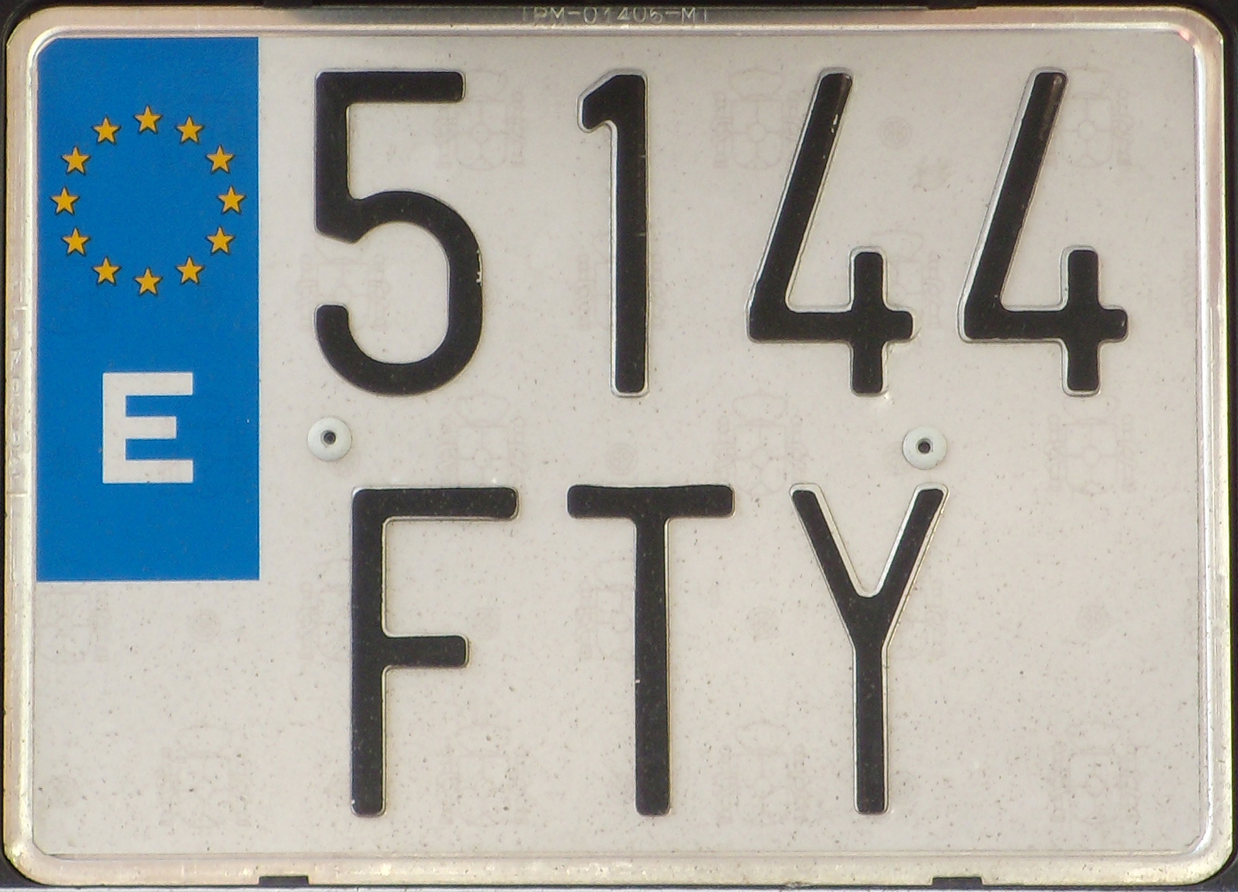 Spanish licence plate for motorbikes, new version (since 2000)